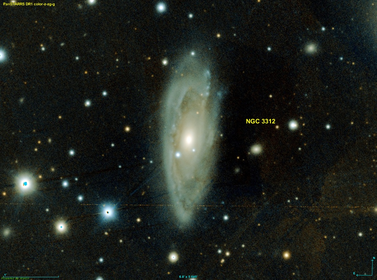 Image created using the Aladin Sky Atlas software from the Strasbourg Astronomical Data Center and Pan-STARRS (Panoramic Survey Telescope And Rapid Response System) public data.